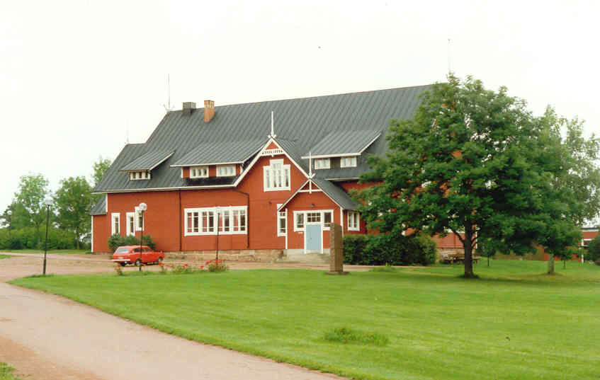 Åland folk high school (Swedish: Ålands folkhögskola) in Finström, Åland, Finland in the late summer 1990